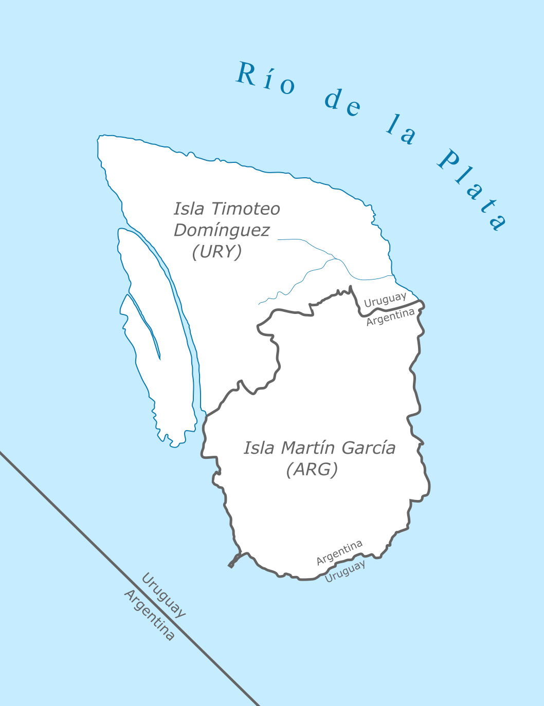 Map of the uruguayan Island Timoteo Domínguez, and the argentinean Martín García